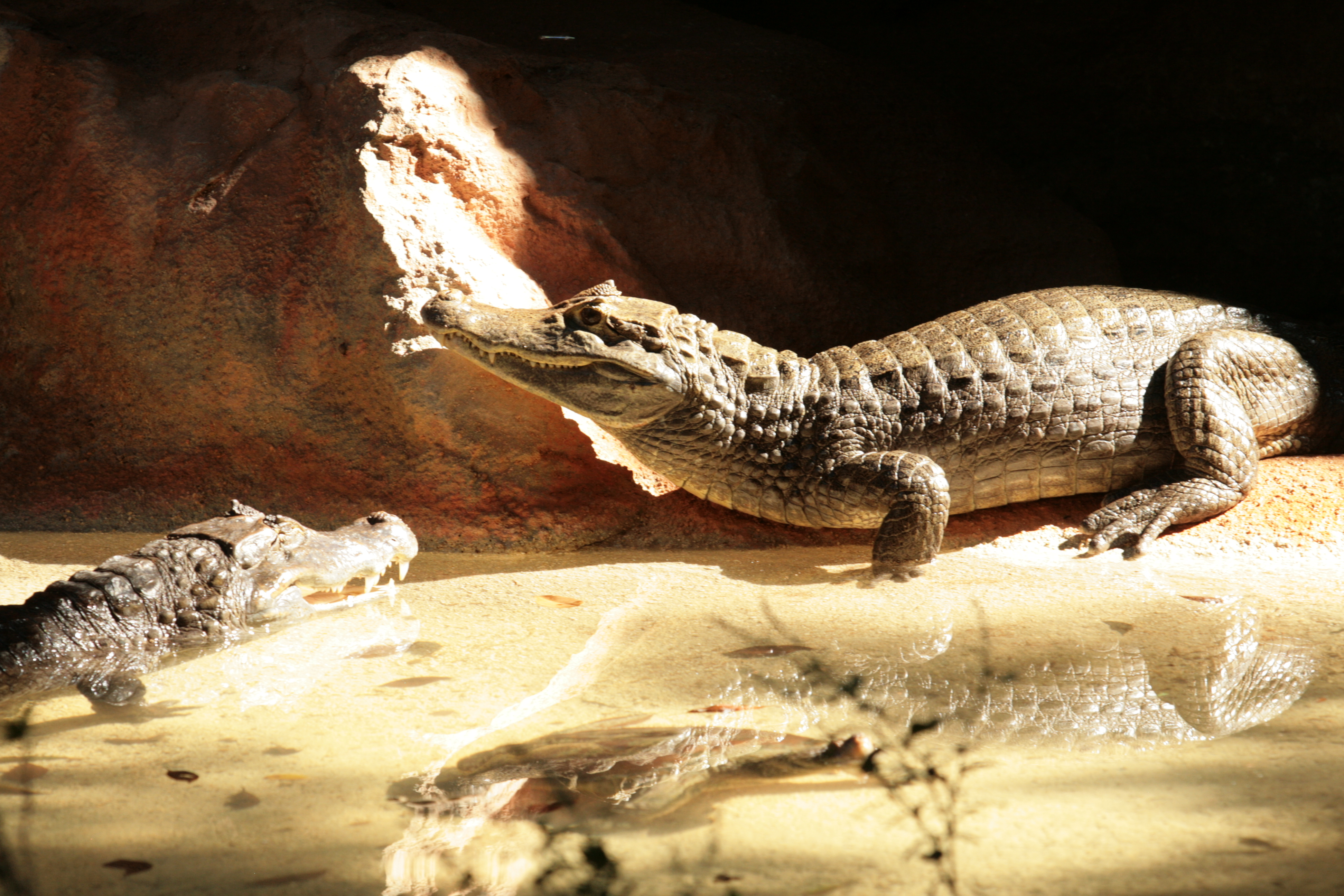 Picture of the Caimans at the Caiman exhibit at the zoo in Mayaguez, Puerto Rico